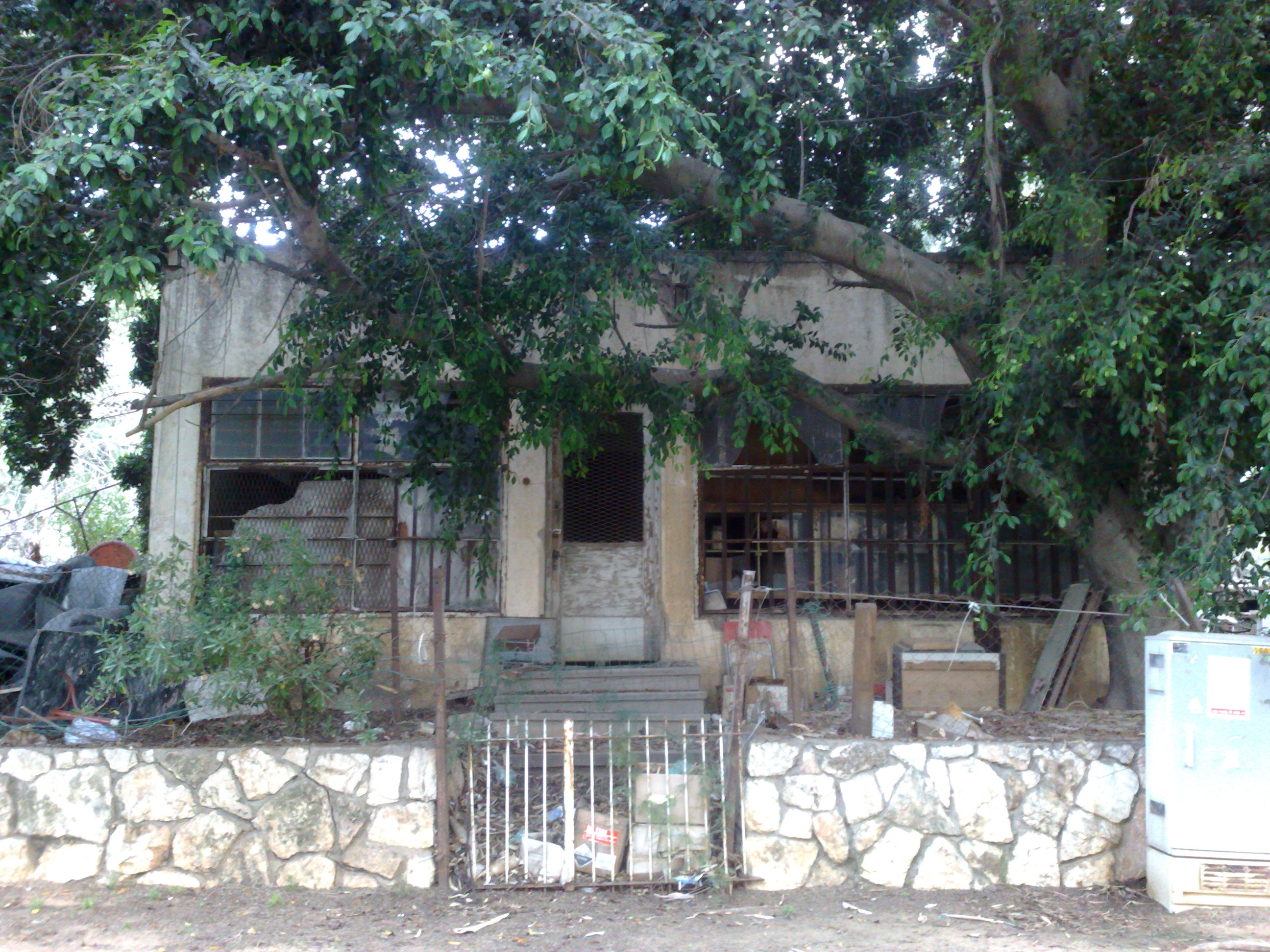 Memlok house. First Pharmacy in Borochov Givatayim